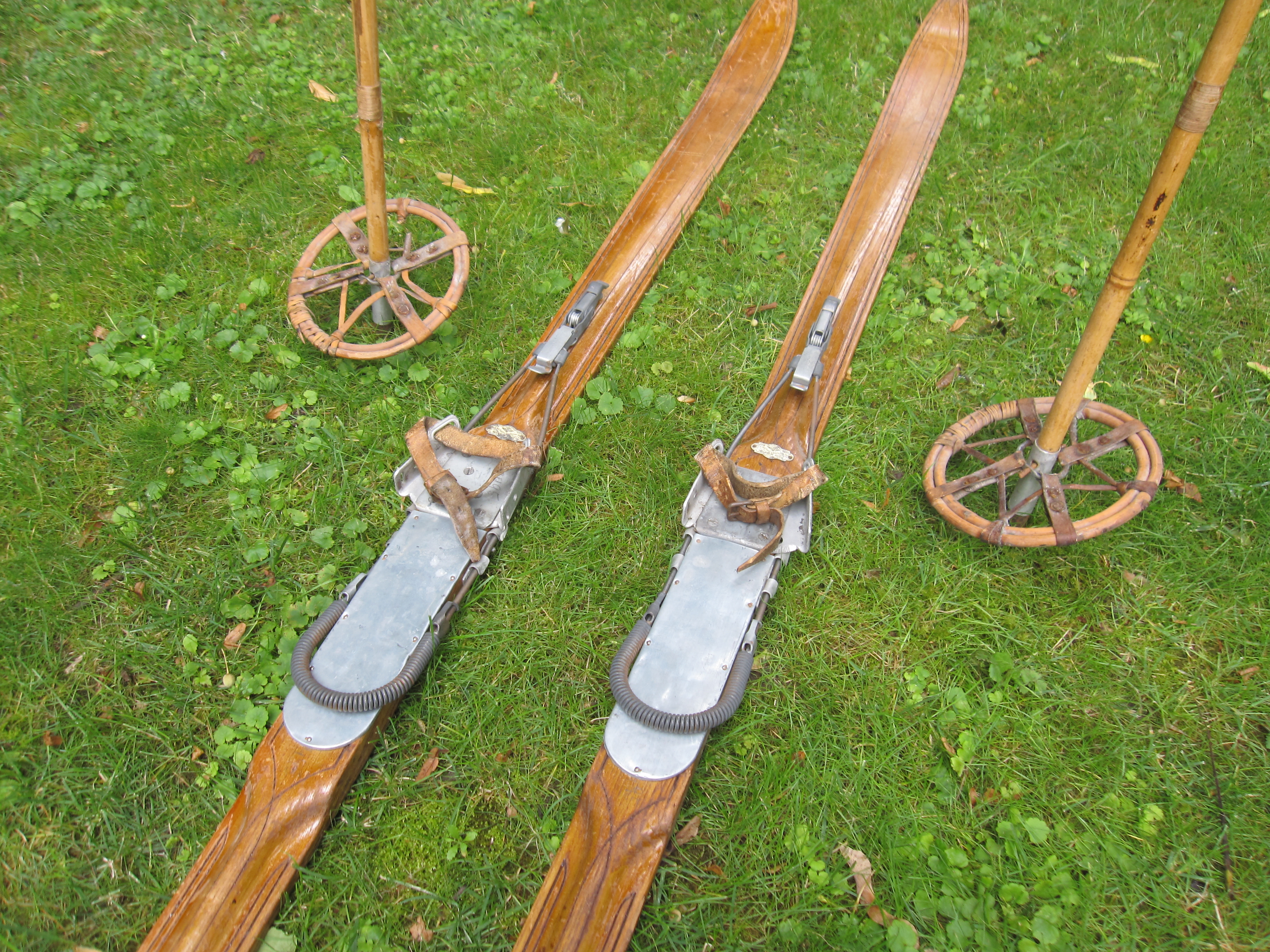 Ski by Wilhelm Pohl department store in Vienna.